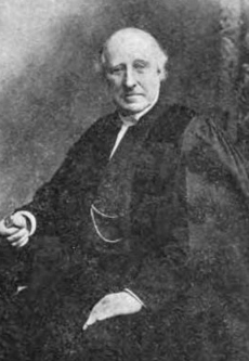 Rev Gustavus Aird c.1880